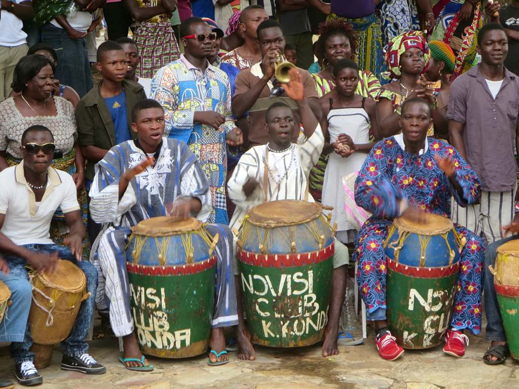 Ewa musicians pound out the beat at the Hotel Campement de Kloto in the Forêt de Missahohe at Kouma-Konda village near Kpalime, Togo.